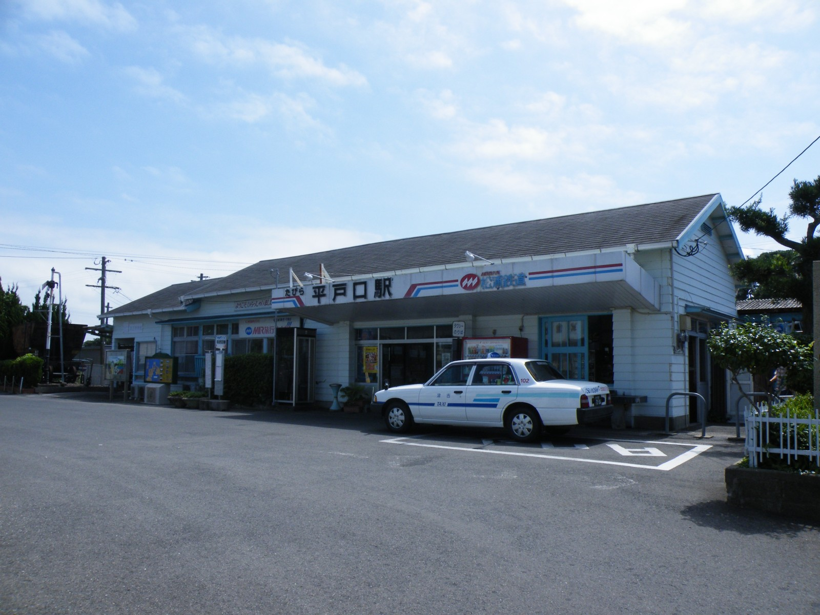 Matsuura Railway Tabira-Hiradoguchi Station